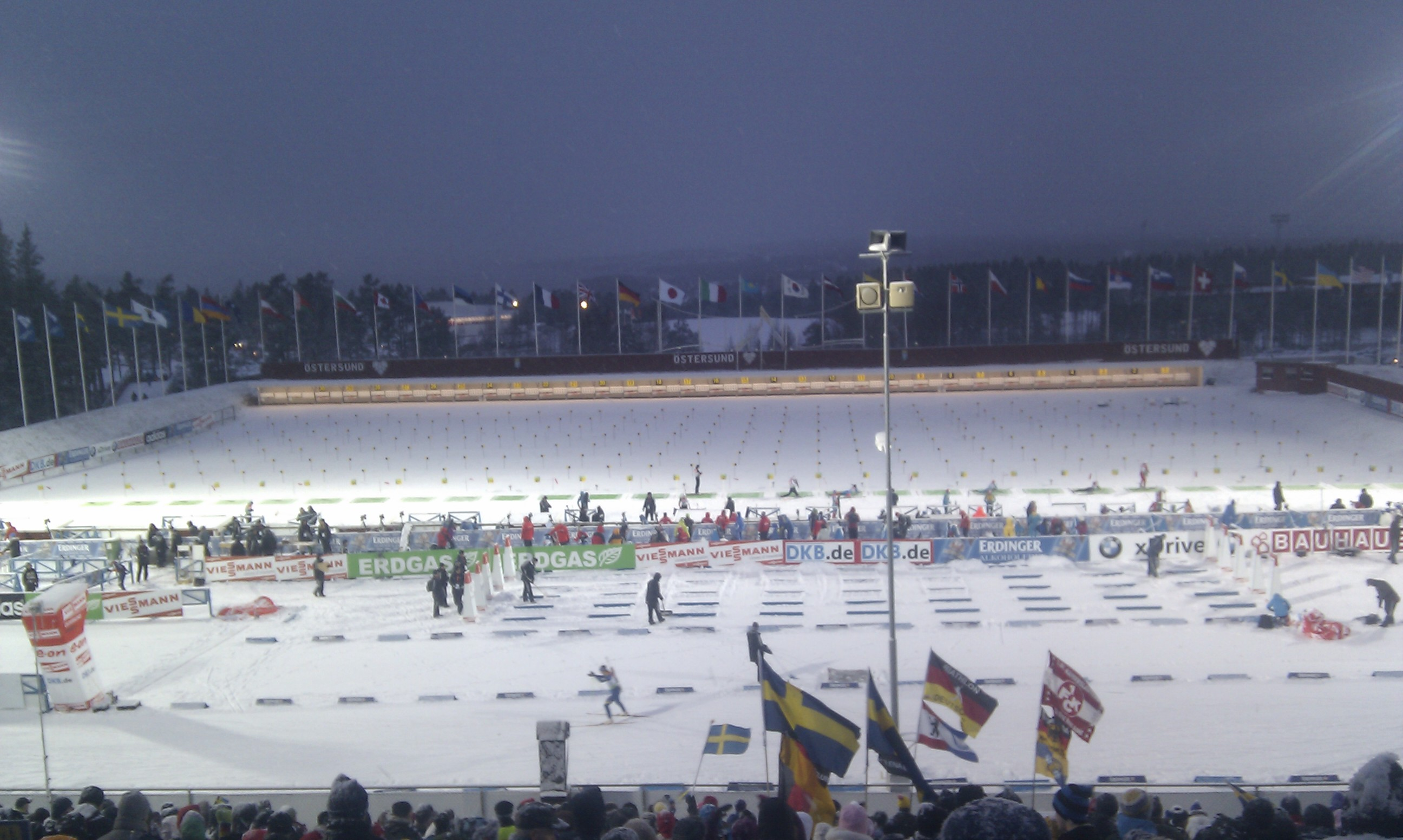 Östersund skistadium